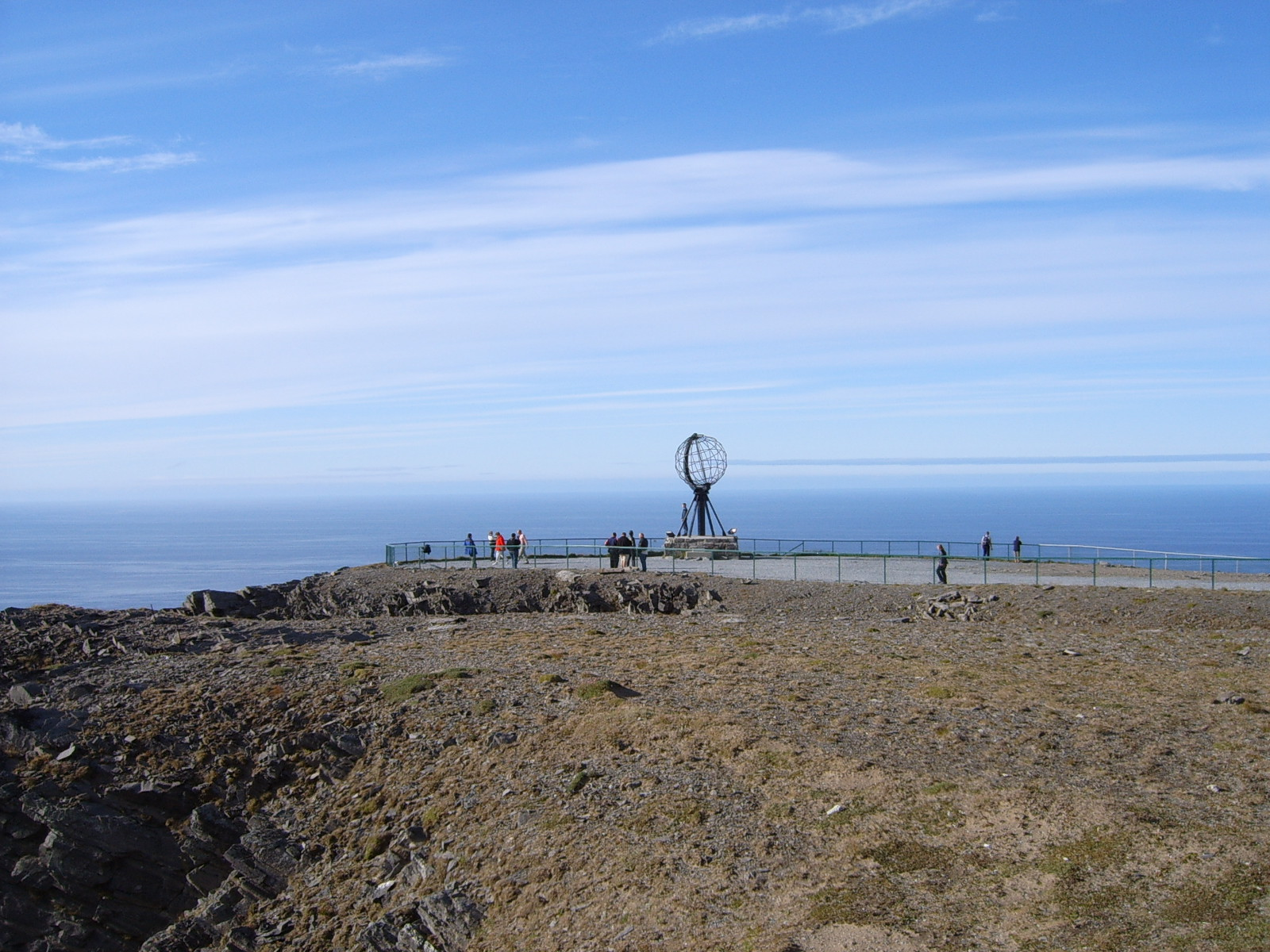 Nordkapp Personal picture, july 2005